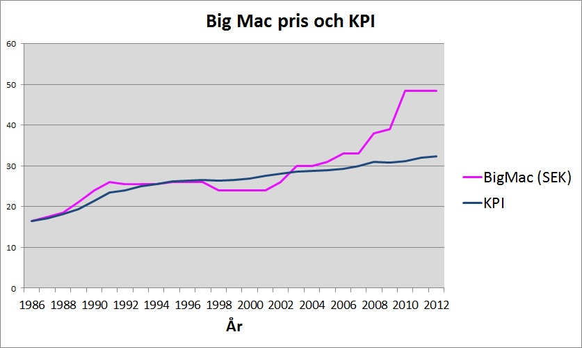 Cost of a BigMac in sweden compared to consumer price index